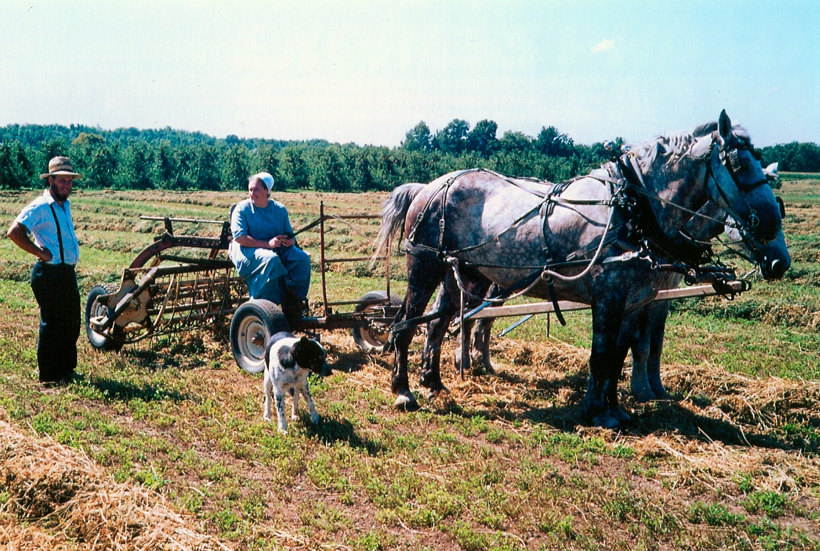 Amish family farming using traditional methods, Lyndonville, New York, USA